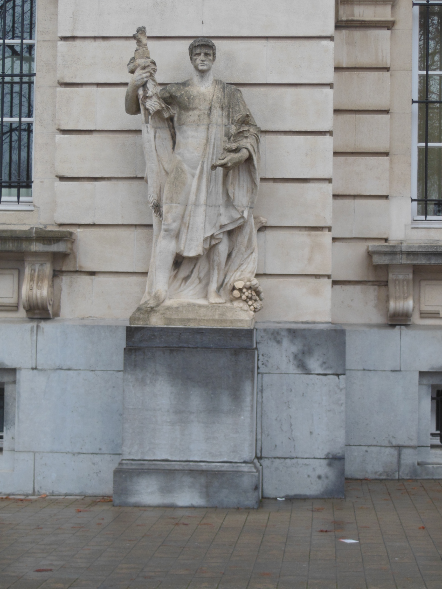 A statue of the Roman deity Mars at the entrance of the Royal Military Academy, Belgium. With the right hand, Mars embraces a flag crowned by a lion; in the left hand he holds a (presumably) laurel branch. Pieter Braecke